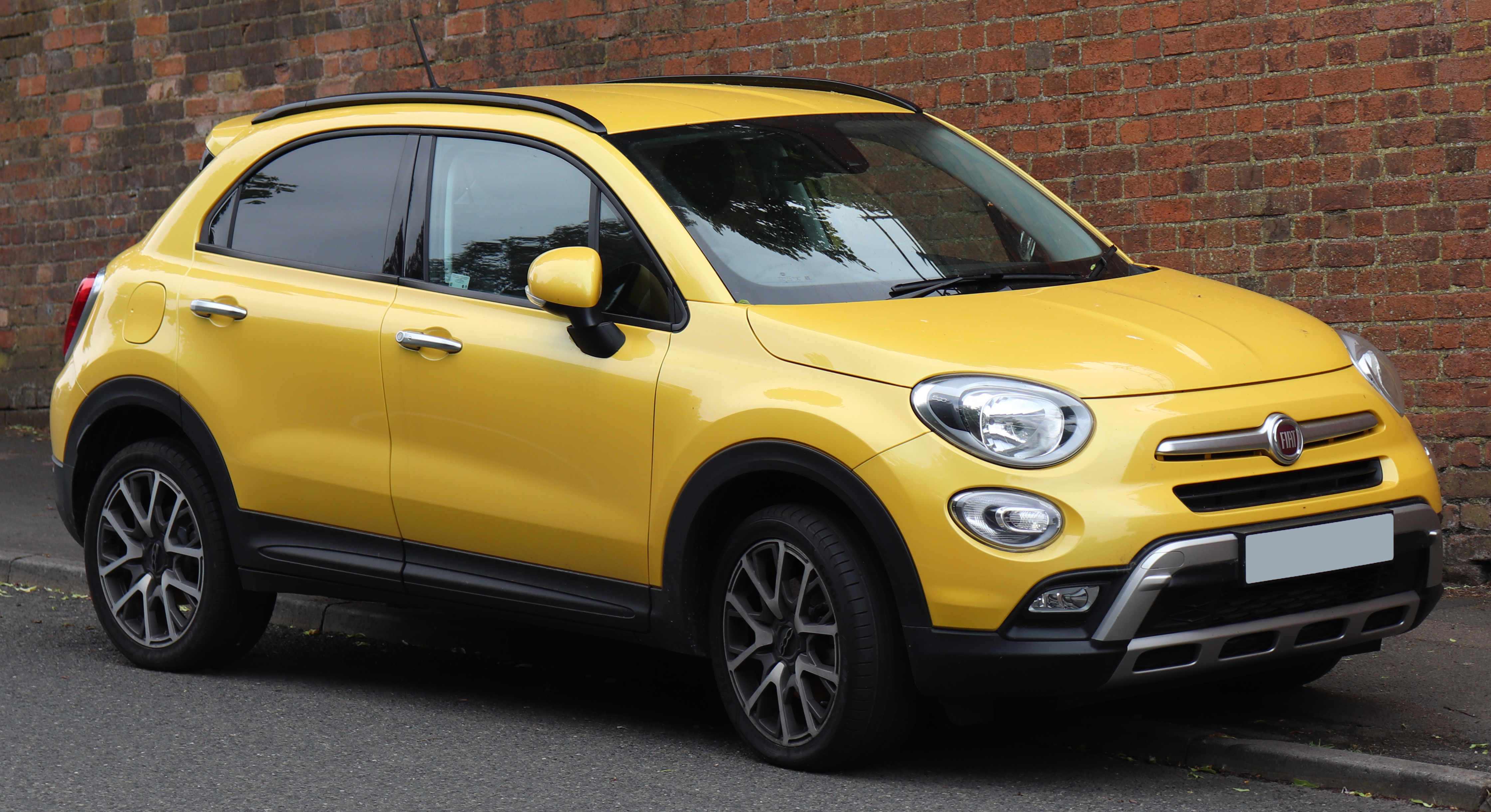 2017 Fiat 500X Cross+ Multiair 1.4 Front Taken in Warwick